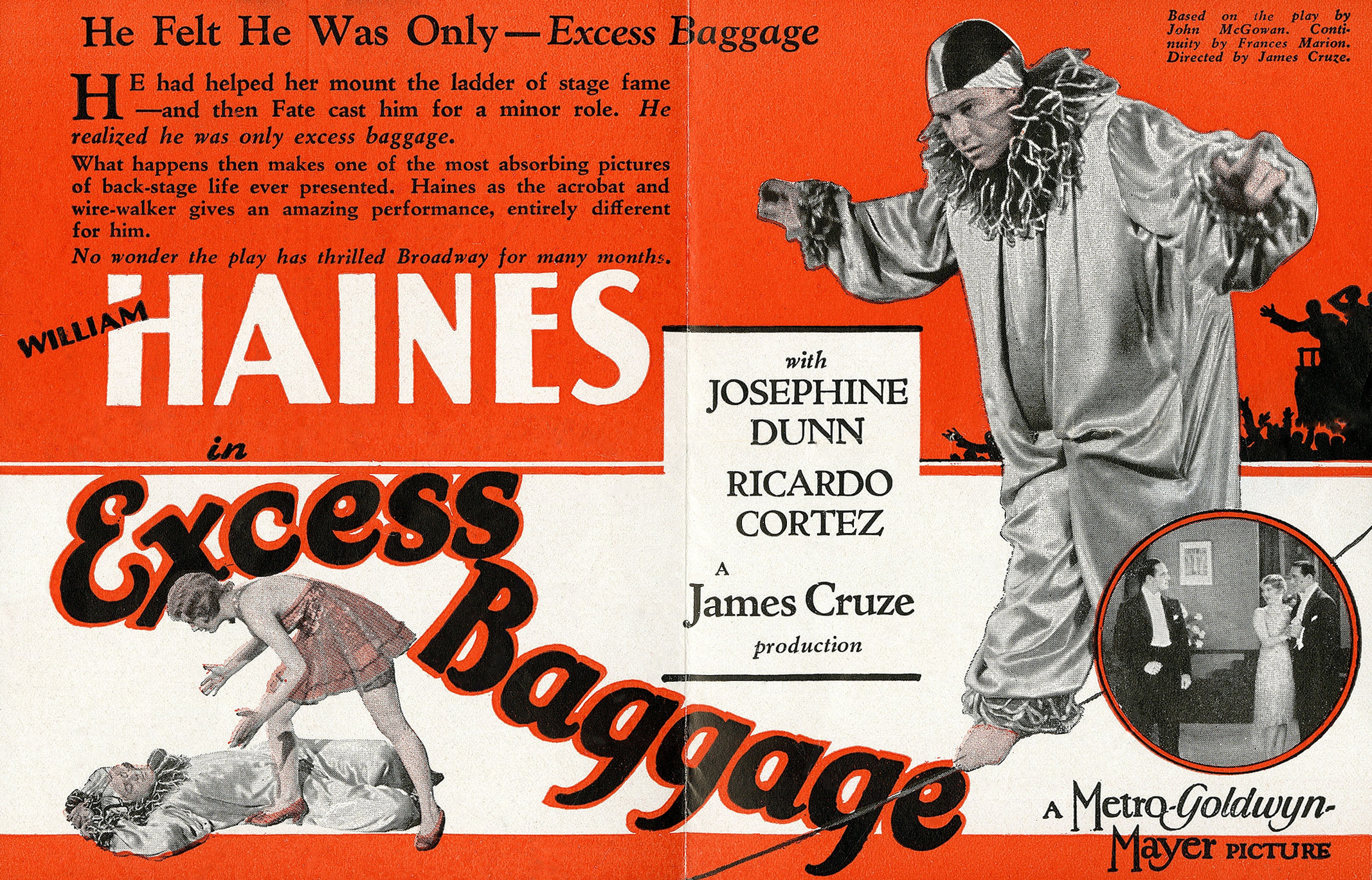 Film poster for Excess Baggage (1928).